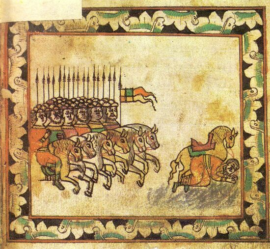 Bobrok is listening to the earth before the Battle of Kulikovo. From 17th century manuscript